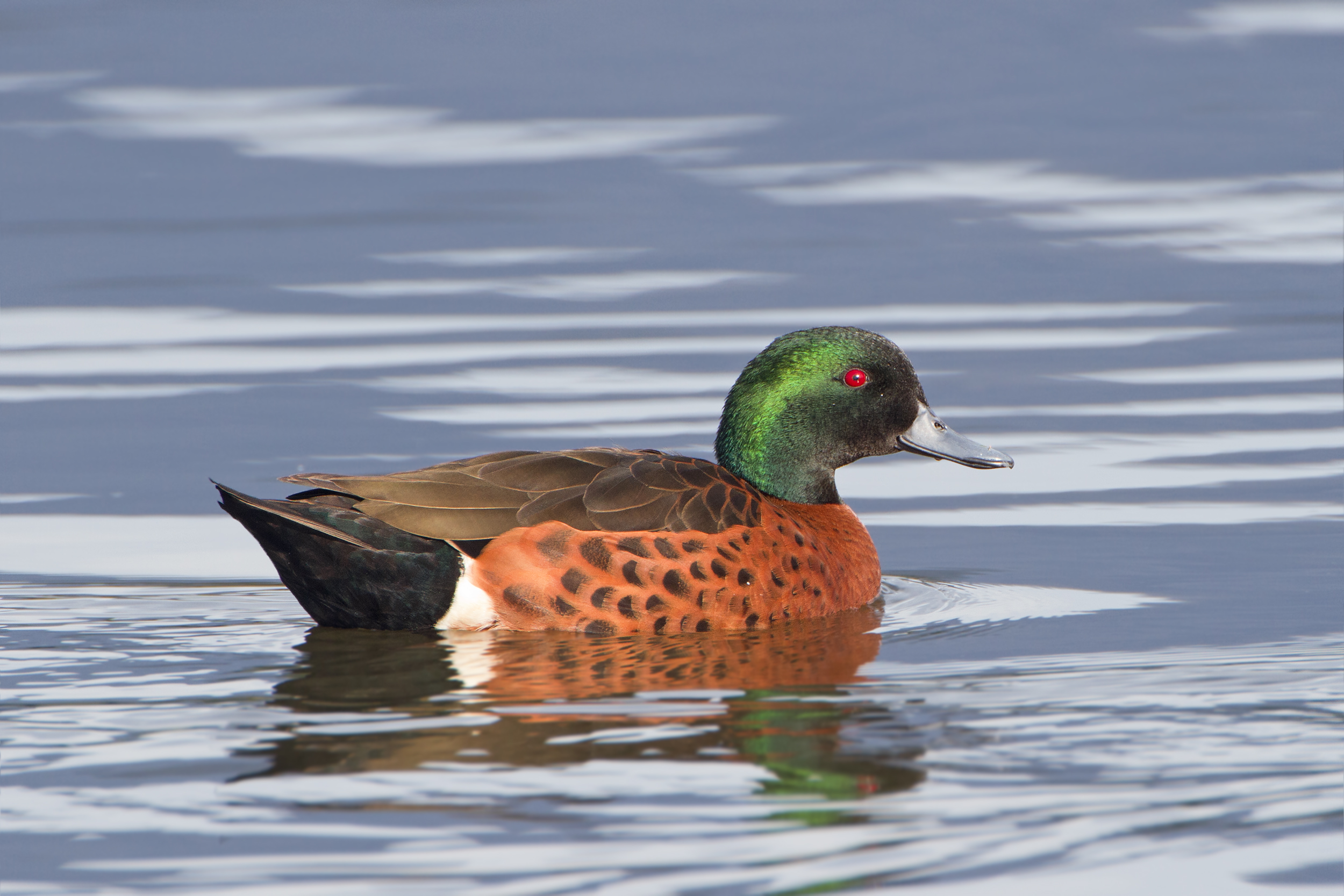 Chestnut Teal (Anas castanea), Gould's Lagoon, Tasmania, Australia